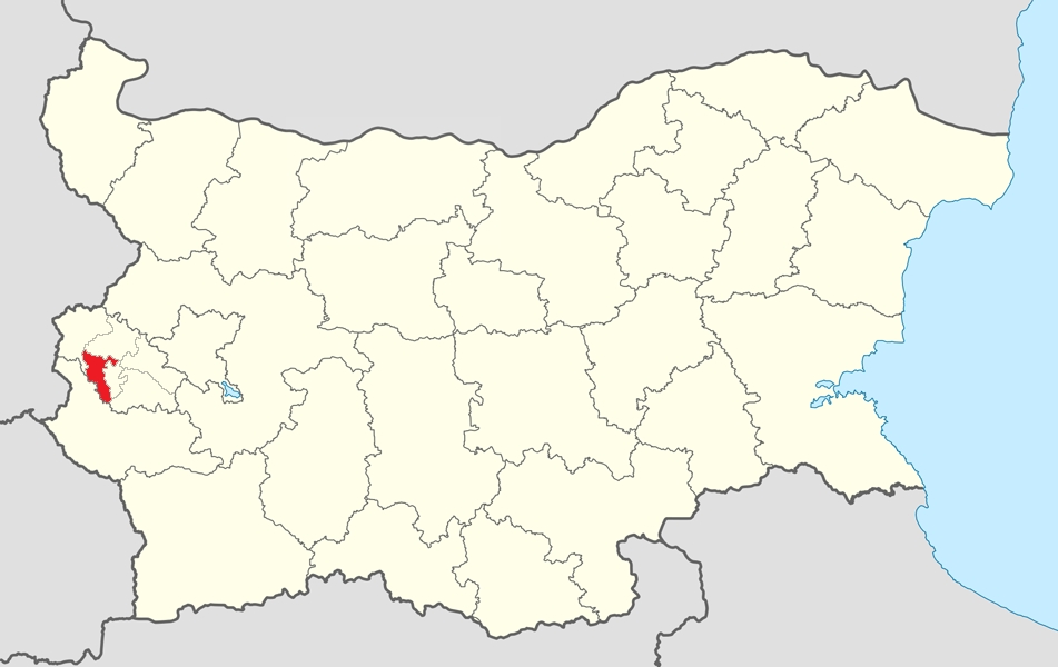 Location map of Zemen Municipality within Bulgaria and Pernik province